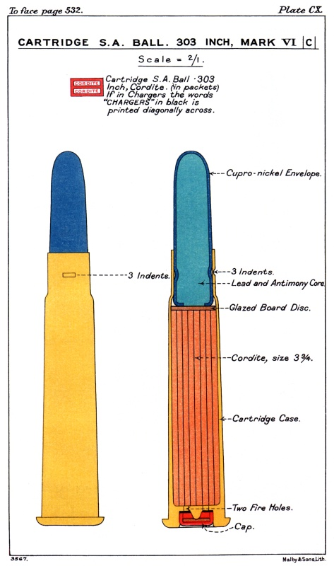 Diagrams showing interior and exterior of British .303 Mk VI cartridge.